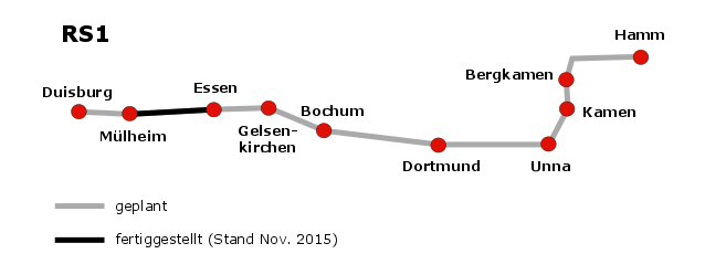 bike highway RS1 in Germany (gray - planned, black - finnished)